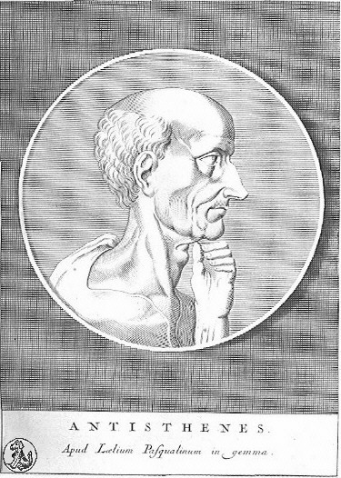 Antisthenes